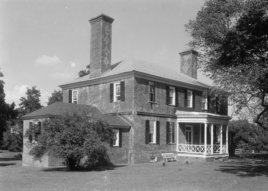 Brooke's_Bank,_U.S._Route_17_vicinity,_Loretto_vicinity_(Essex_County,_Virginia) cropped This file comes from the Historic American Buildings Survey (HABS), Historic American Engineering Record (HAER) or Historic American Landscapes Survey (HALS). These are programs of the National Park Service established for the purpose of documenting historic places. Records consist of measured drawings, archival photographs, and written reports. When reusing please credit: Library of Congress, Prints & Photographs Division, VA,29-LOR.V,3-1 This tag does not indicate the copyright status of the attached work. A normal copyright tag is still required. See Commons:Licensing for more information. This work is in the public domain in the United States because it is a work prepared by an officer or employee of the United States Government as part of that person’s official duties under the terms of Title 17, Chapter 1, Section 105 of the US Code. See Copyright. Note: This only applies to original works of the Federal Government and not to the work of any individual U.S. state, territory, commonwealth, county, municipality, or any other subdivision. This template also does not apply to postage stamp designs published by the United States Postal Service since 1978. (See § 313.6(C)(1) of Compendium of U.S. Copyright Office Practices). It also does not apply to certain US coins; see The US Mint Terms of Use. This file has been identified as being free of known restrictions under copyright law, including all related and neighboring rights.